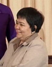 Mar. 11, 2009: Secretary of State Hillary Rodham Clinton hosted the 3rd annual International Women of Courage Awards ceremony with guest speaker First Lady Michelle Obama in the Ben Franklin Room at the State Department.